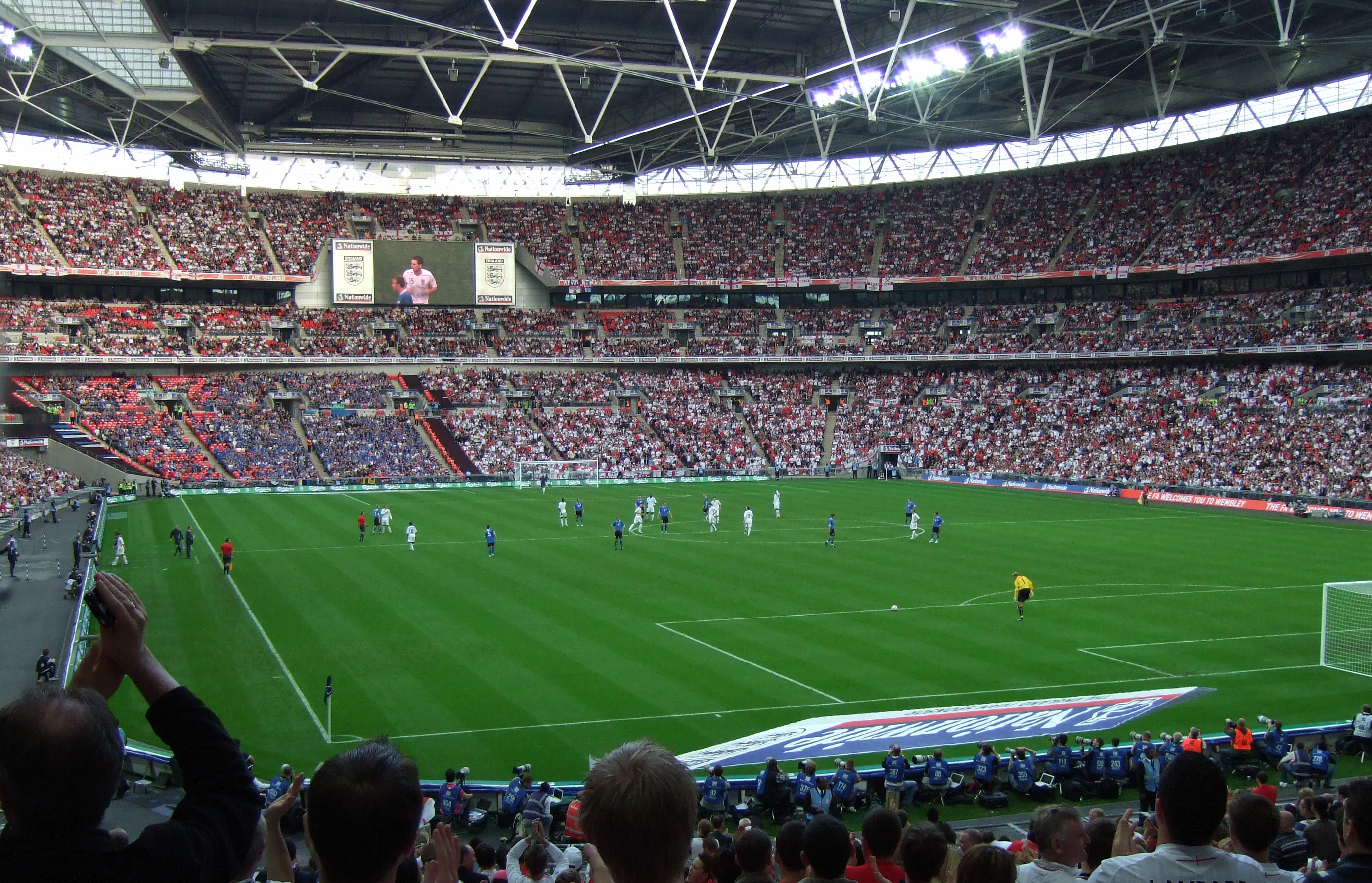 England v Estonia - Wembley 13 October 2007 - Euro 2008 Qualifiers. England 3 Estonia 0England v Estonia